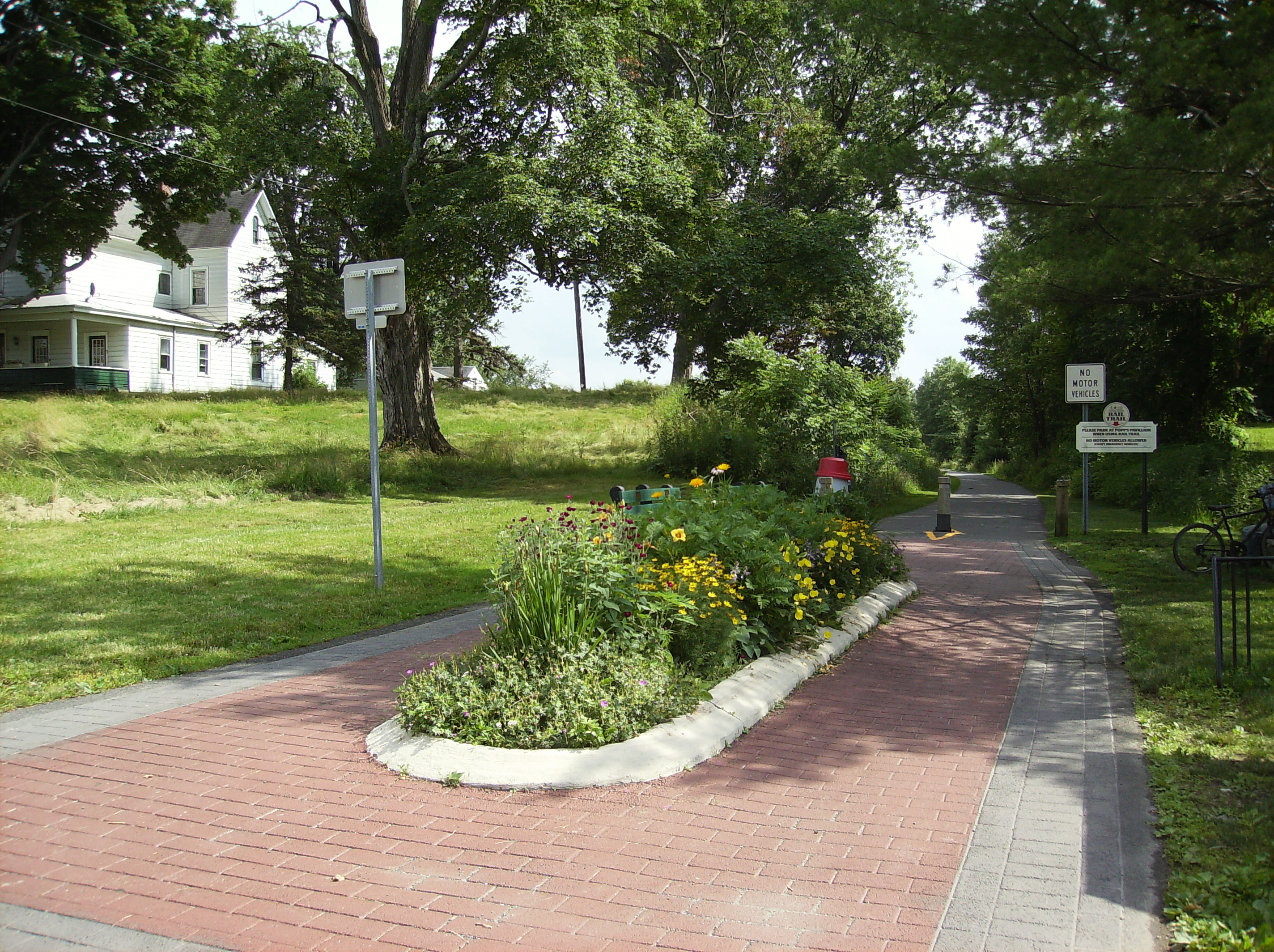 The trailhead of the Walden–Wallkill Rail Trail in the hamlet of Wallkill in the town of Shawangunk, New York.